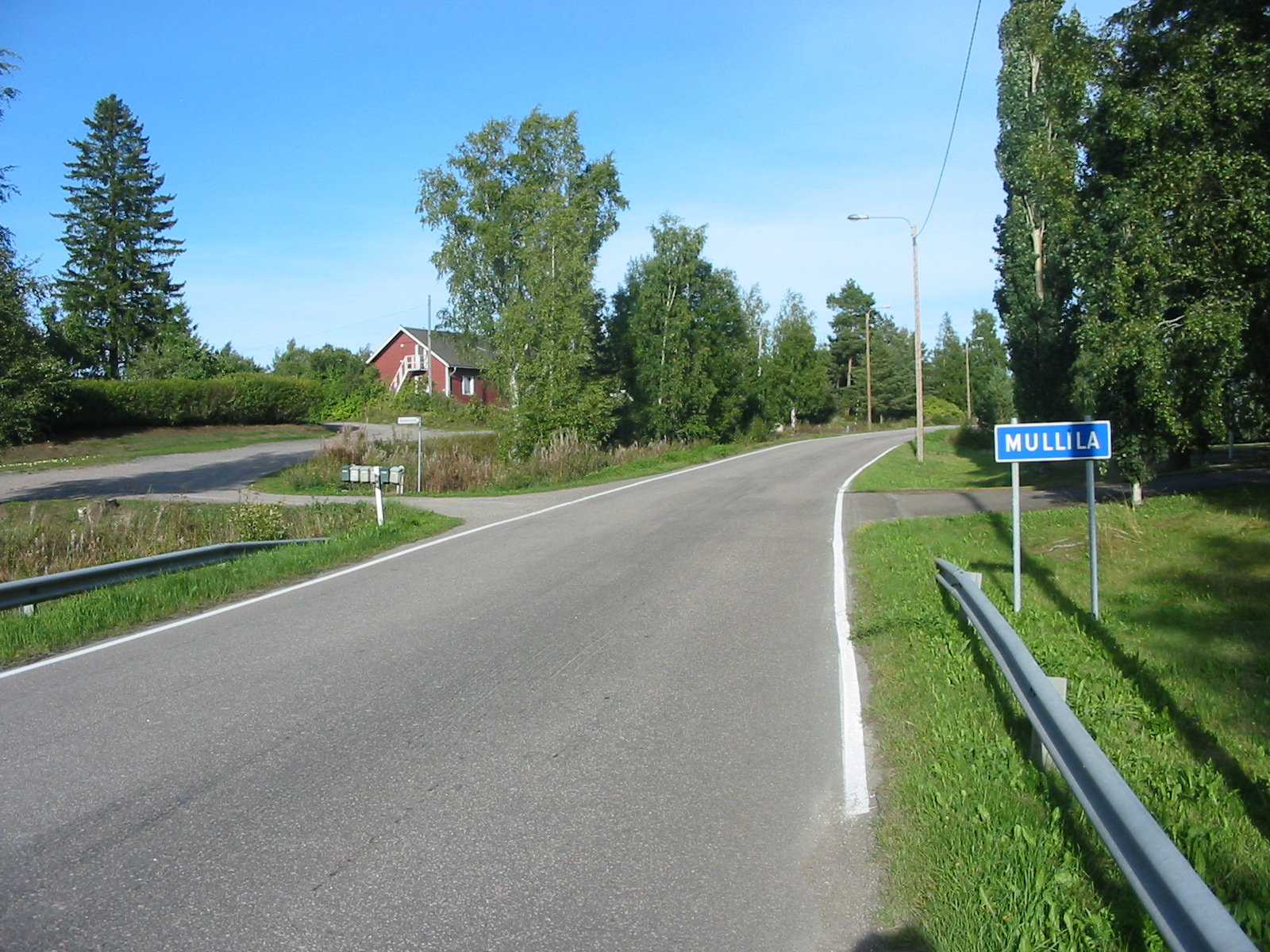 A view towards the village Mullila in Eurajoki from the bridge between the villages of Irjanne and Mullila in Eurajoki, Finland.